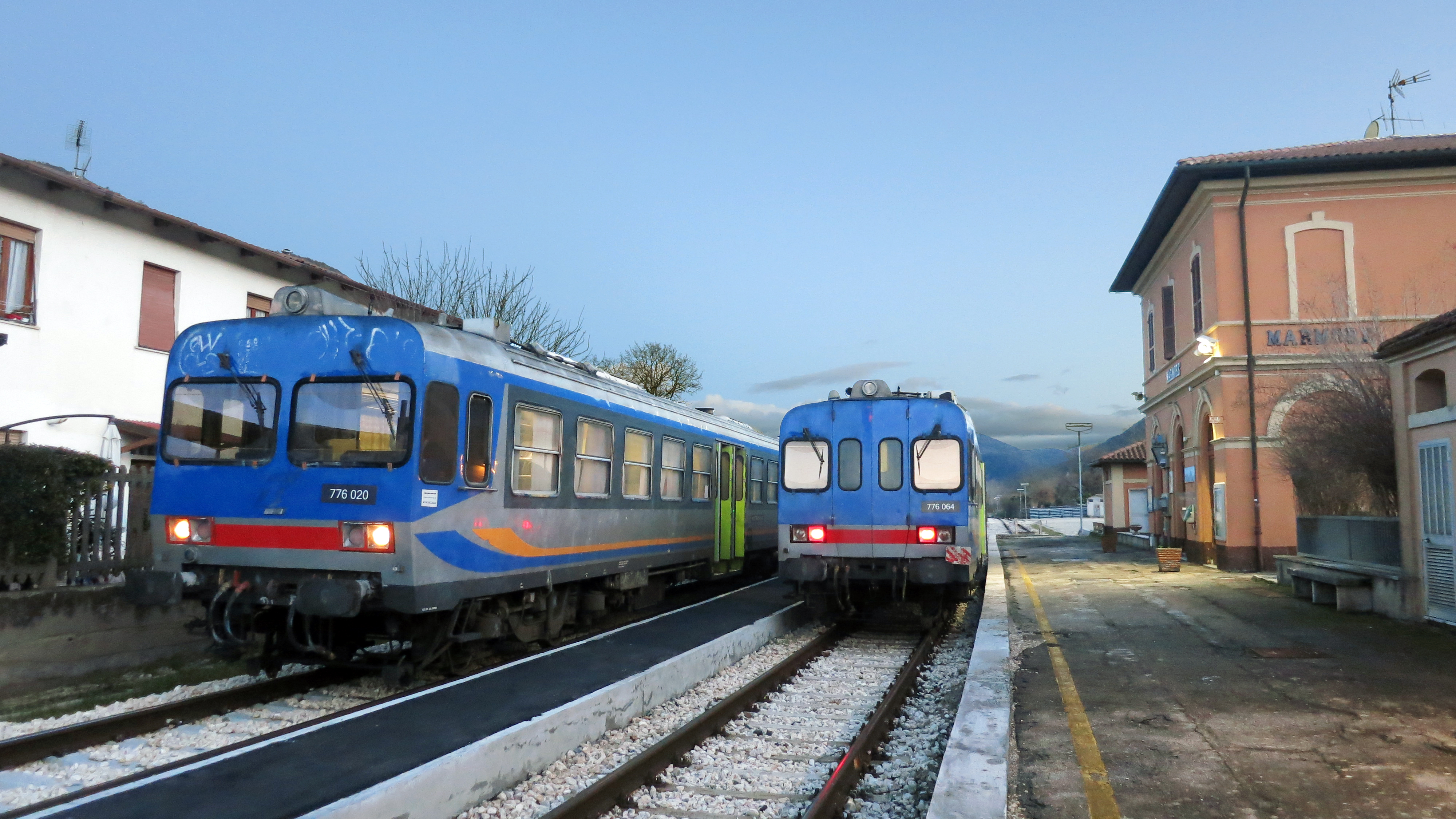 DMU 776.064 crossing a composition of three class ALn 776 DMUs owned by Umbria Mobilità, in the Marmore railway station (Umbria, Italy), on the Terni-Rieti-L'Aquila line.